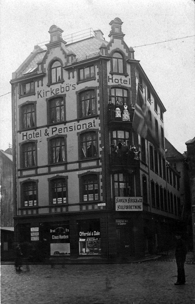 Hotel in Bergen (Norway) built in 1905.